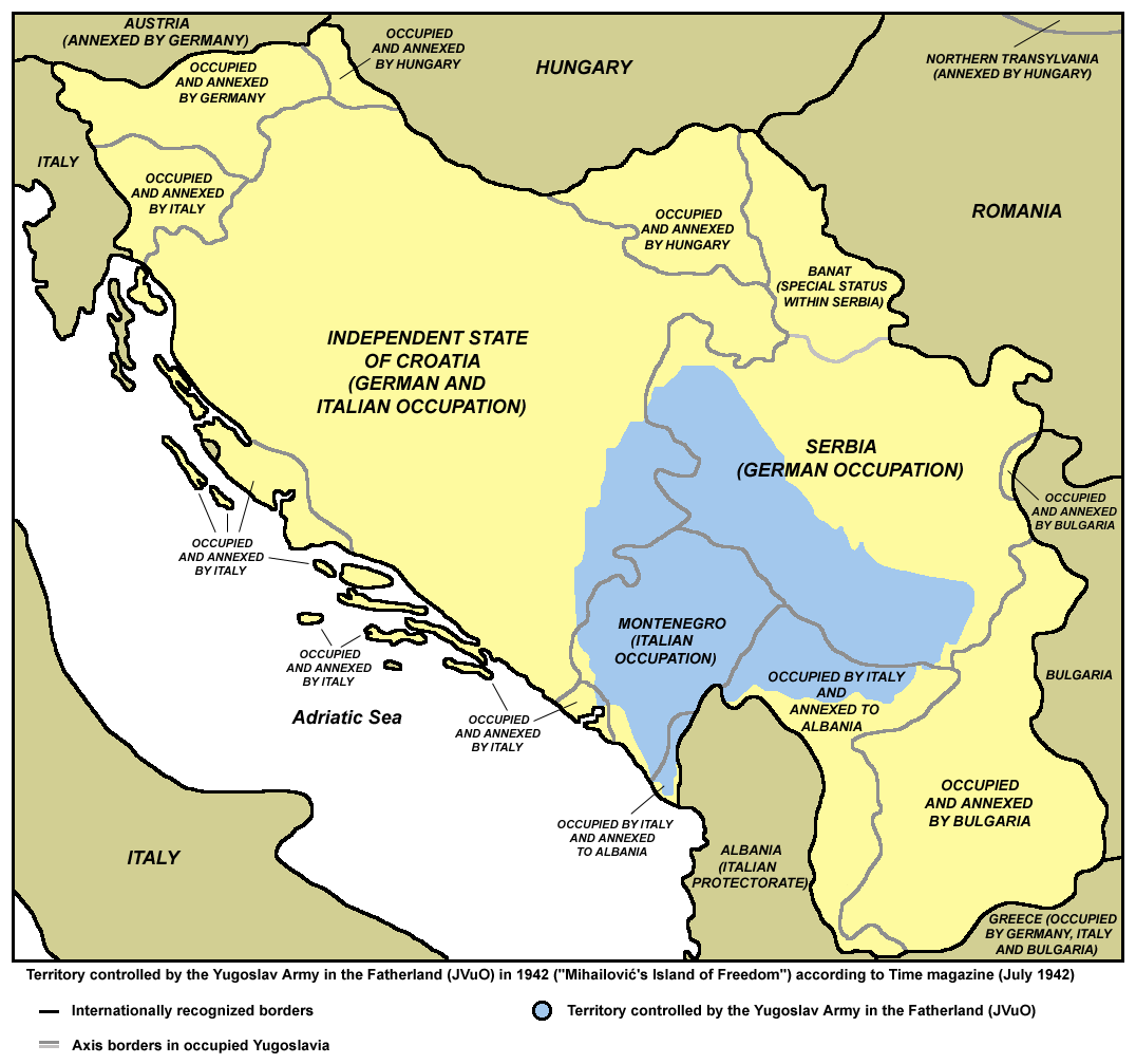 Territory controlled by the Yugoslav Army in the Fatherland (JVuO) in 1942 ("Mihailović's Island of Freedom") according to Time magazine (July 1942).